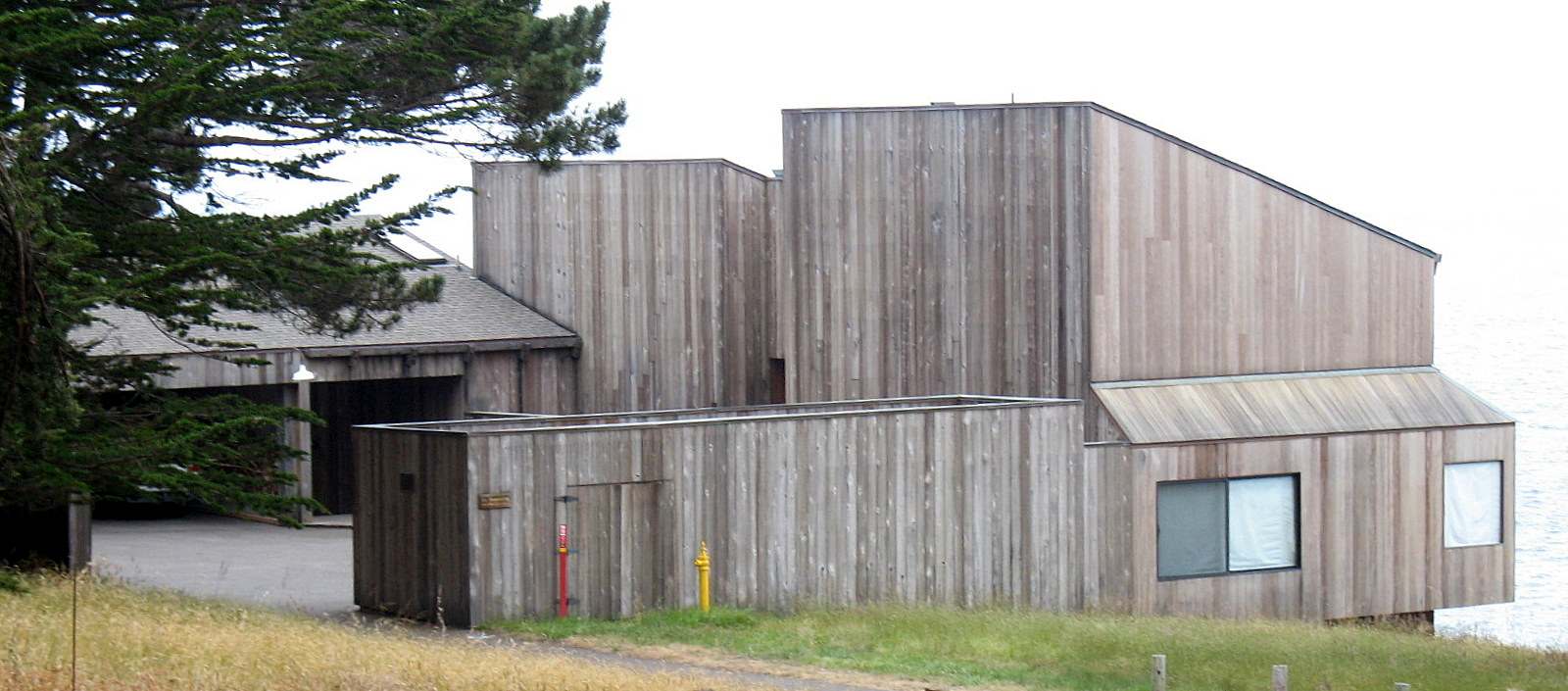 National Register of Historic Places listings in Sonoma County, California. Condominium 1, 110-128 Sea Walk Dr., Sea Ranch, California